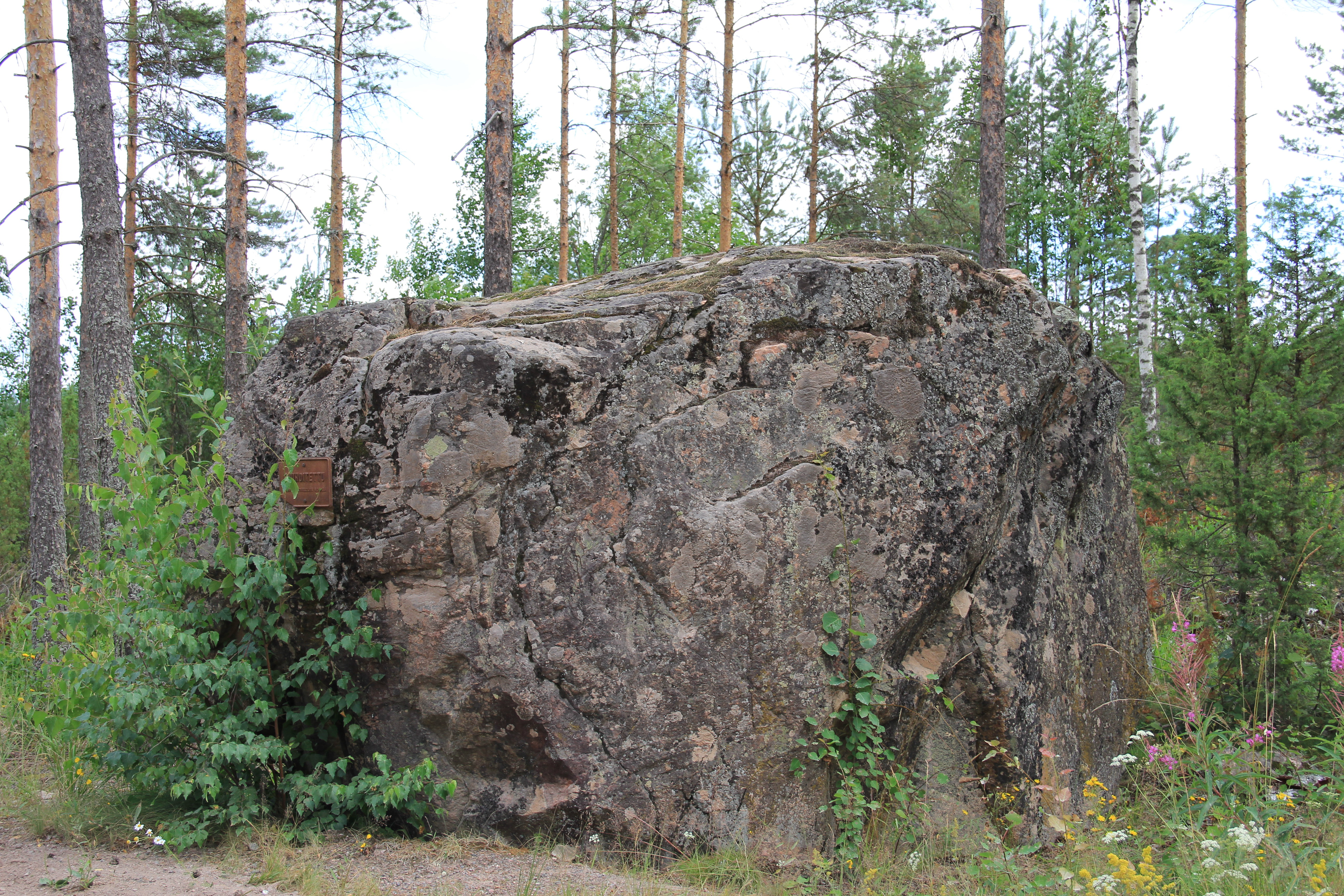 Teinien kivi ("teenagers stone", meaning originally "student's stone"), a glacial erratic in Oripää, Finland. In the old days students used to sit on the boulder and collect money from the passers by.